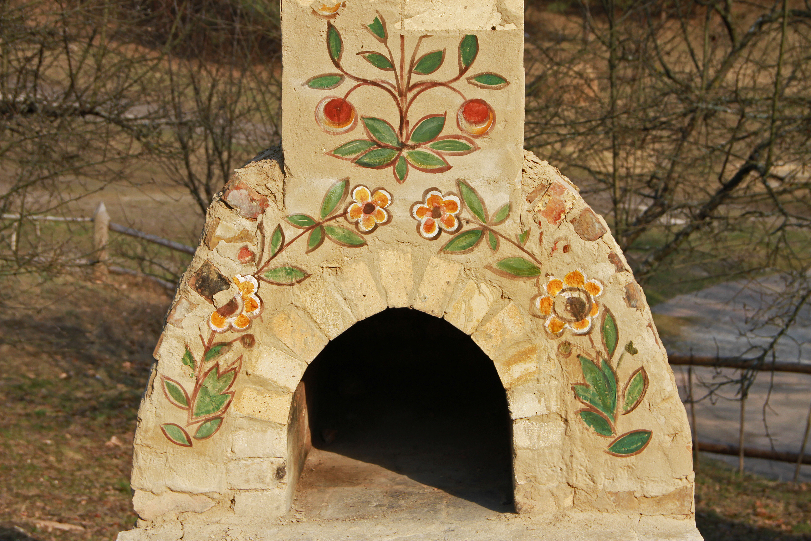 Oven of Estate from Medvedivtsi